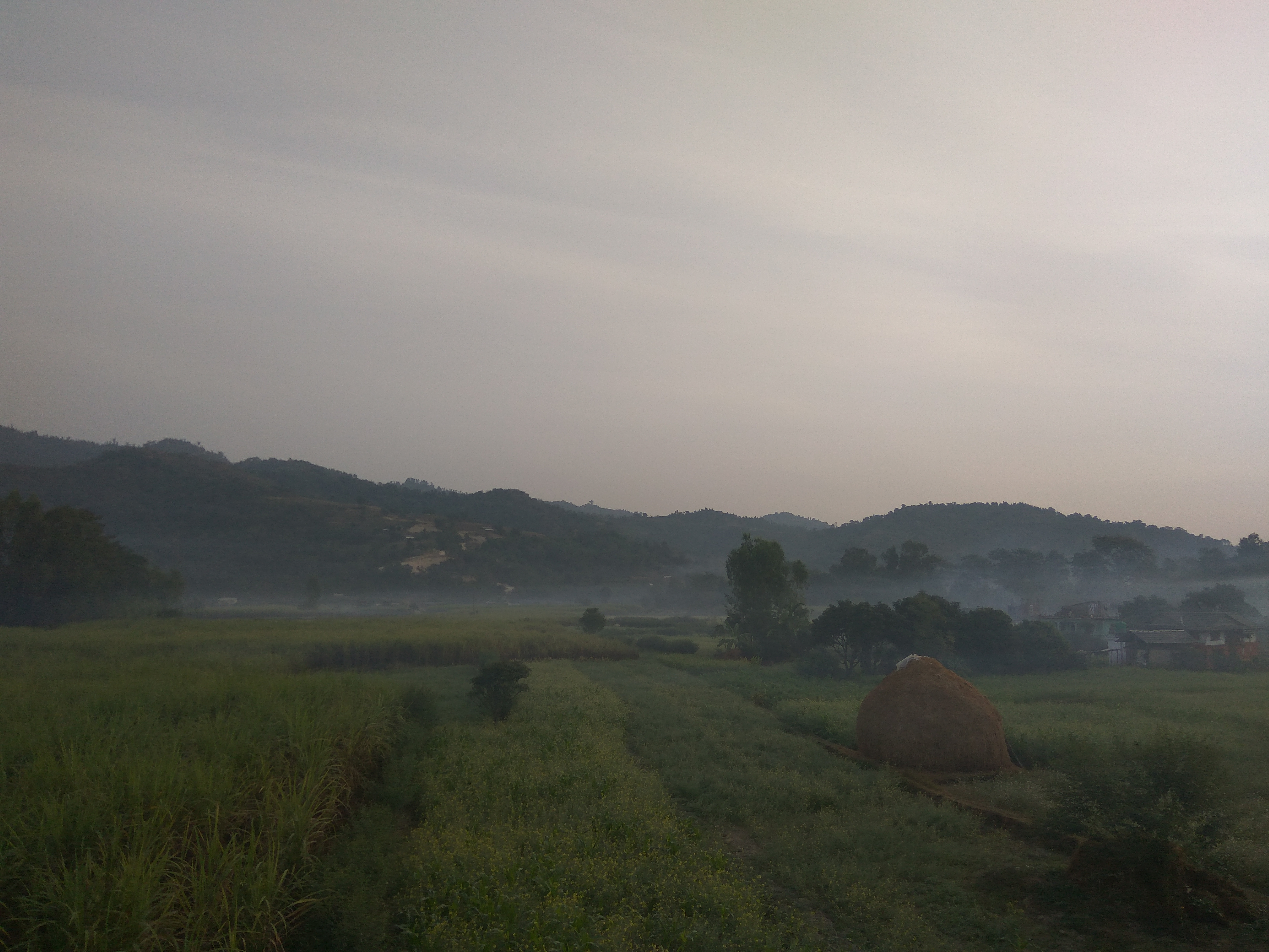 Hills of Terai at Karmaihiya, Sarlahi, Nepal in winter morning.